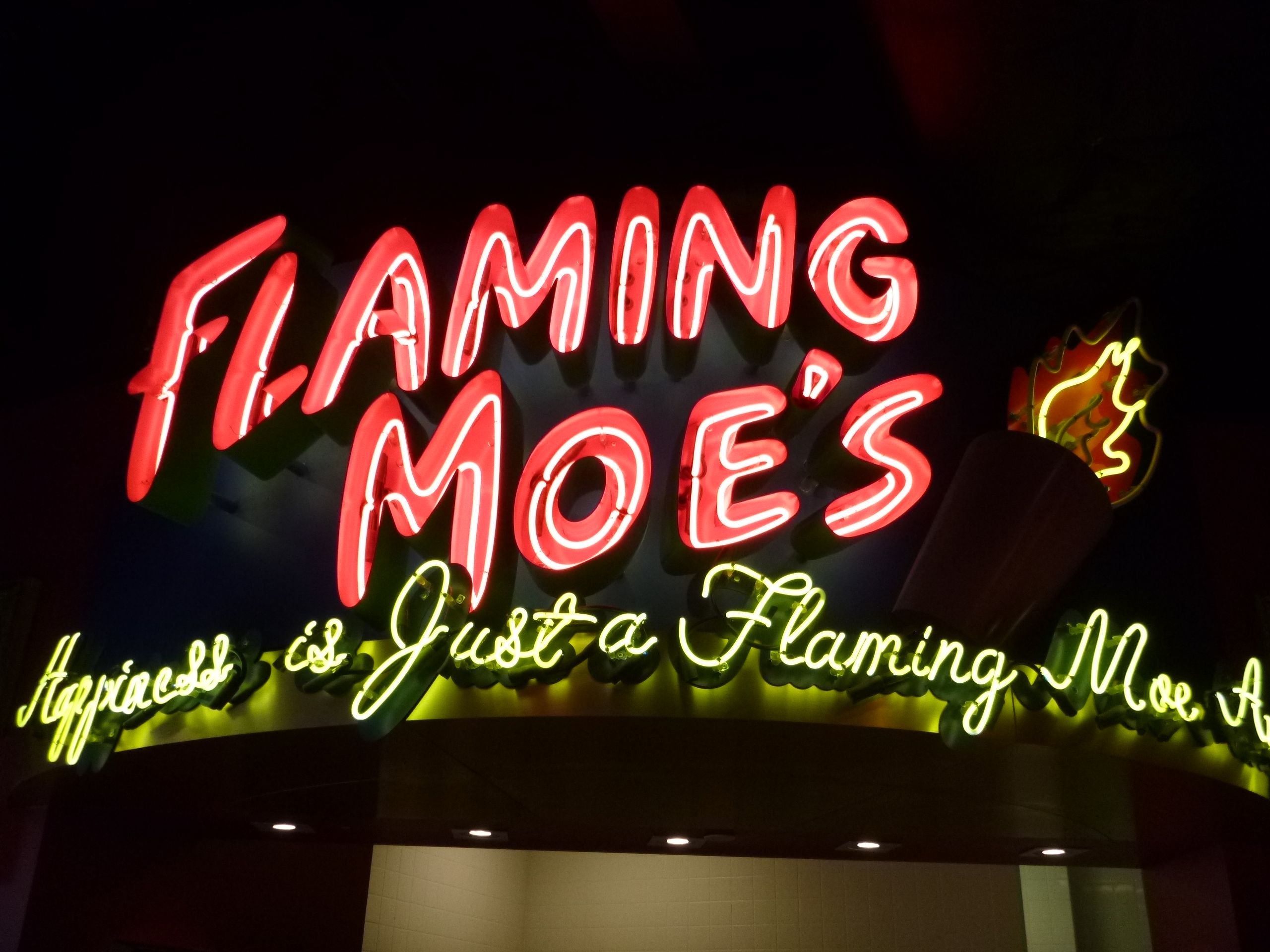 Flaming Moe sign at Springfield U.S.A.